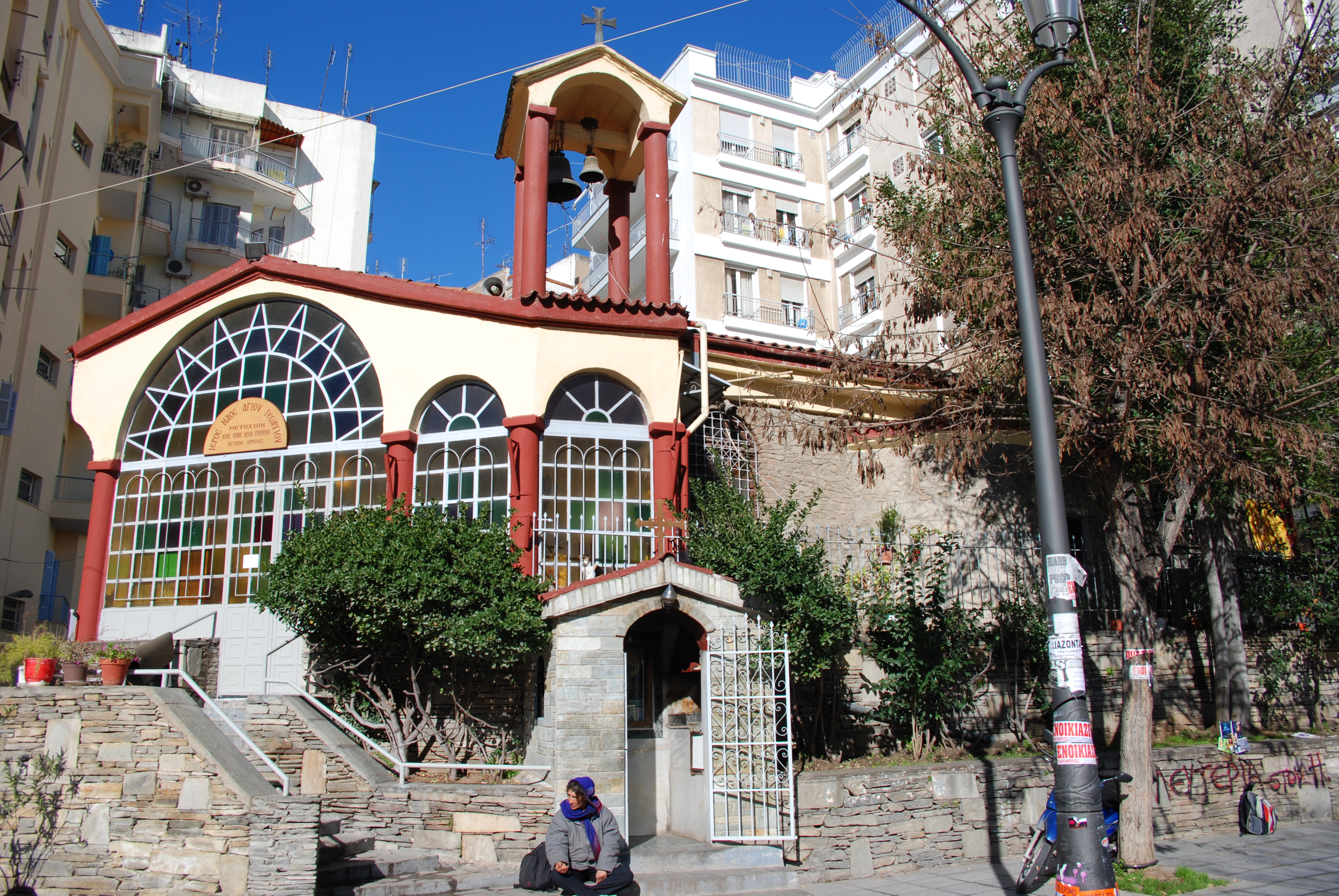 Saint Heorge Church in Thessaloniki by George Groutas